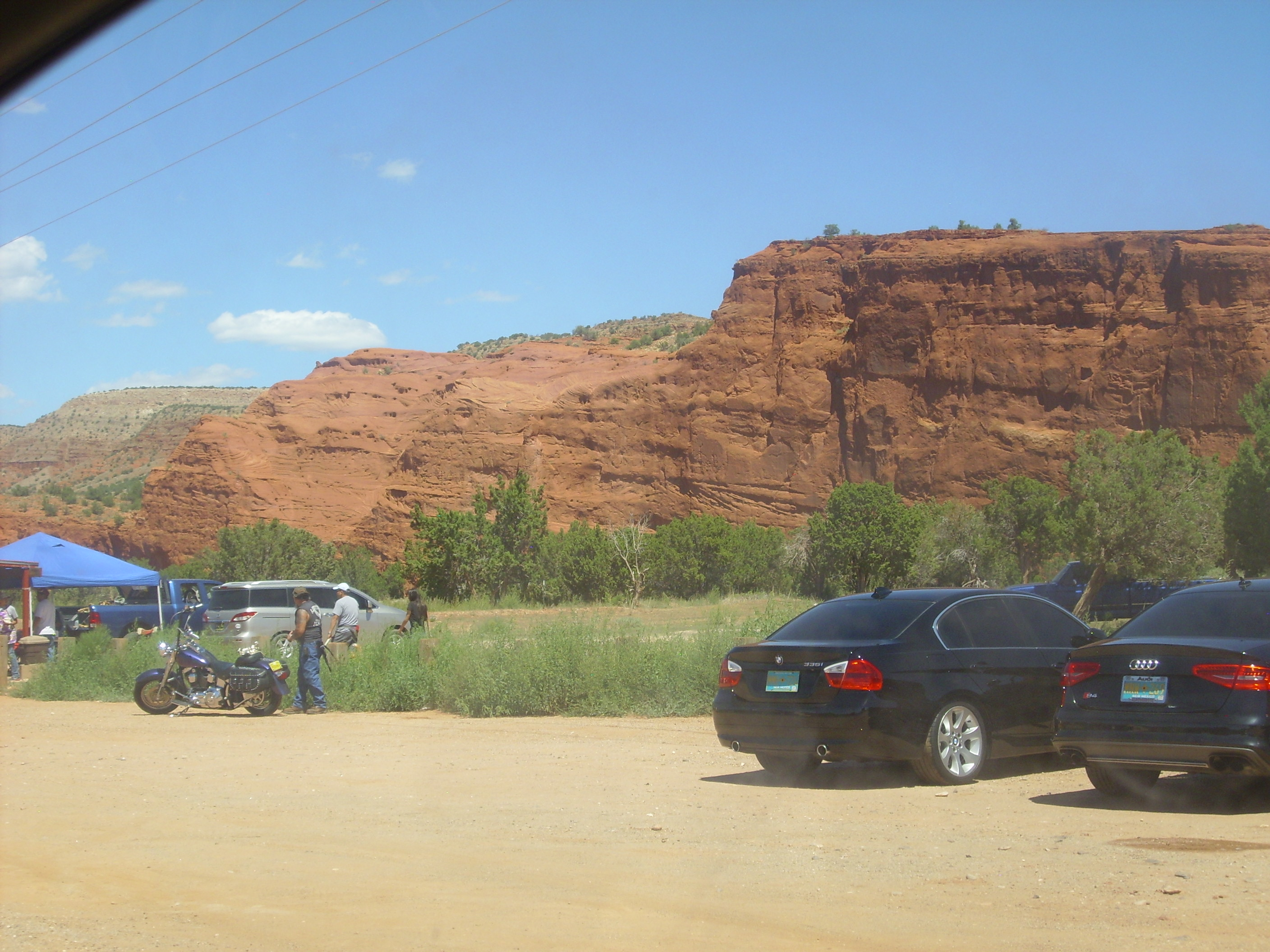 This image shows Permian Yeso Formation cliffs near Canon, New Mexico, United States, at a rest stop along the highway.